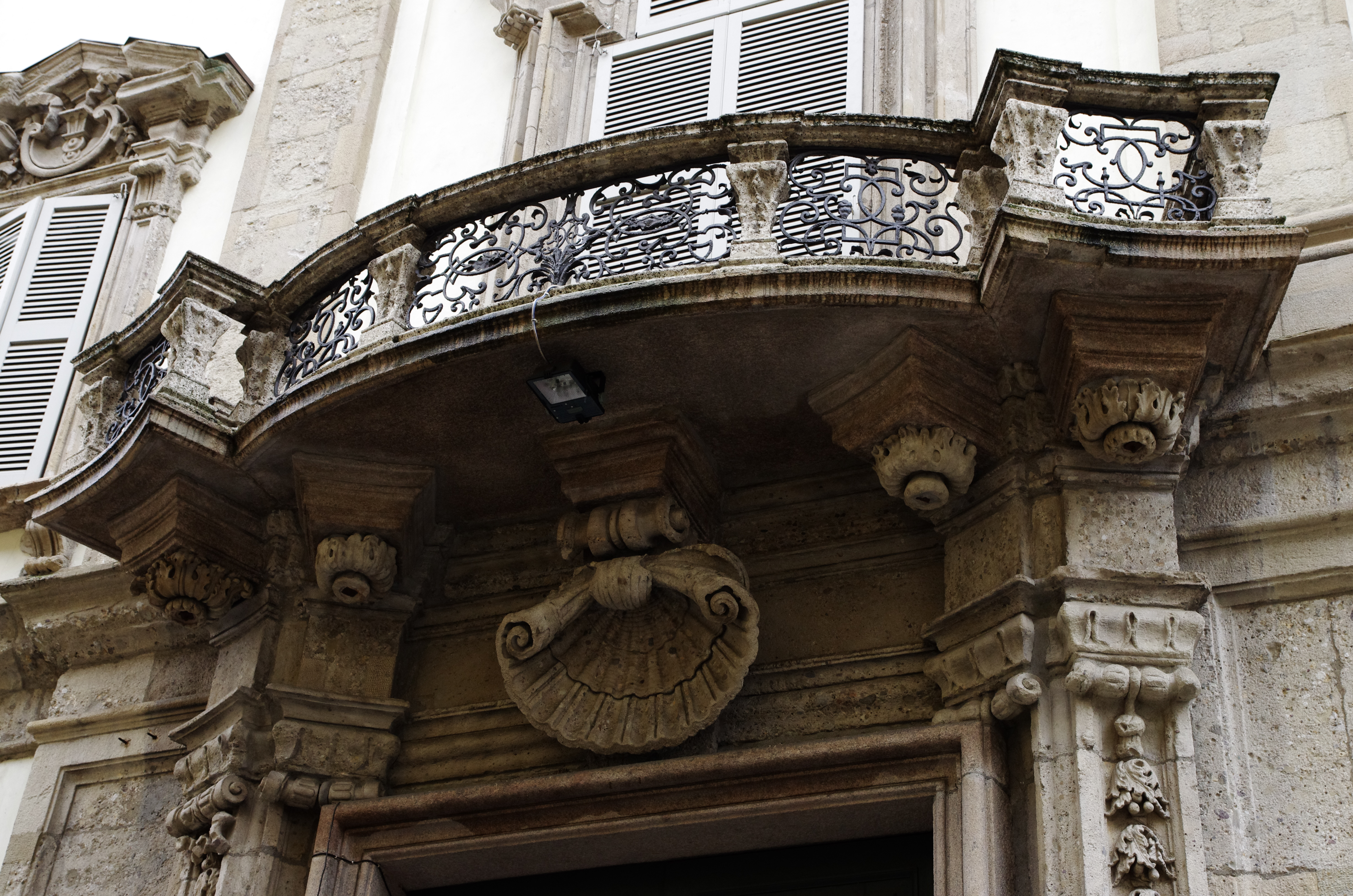 2014 02 13 14 13 13 Milano ITALY Palazzo Cusani balcone balcon photo Paolo Villa